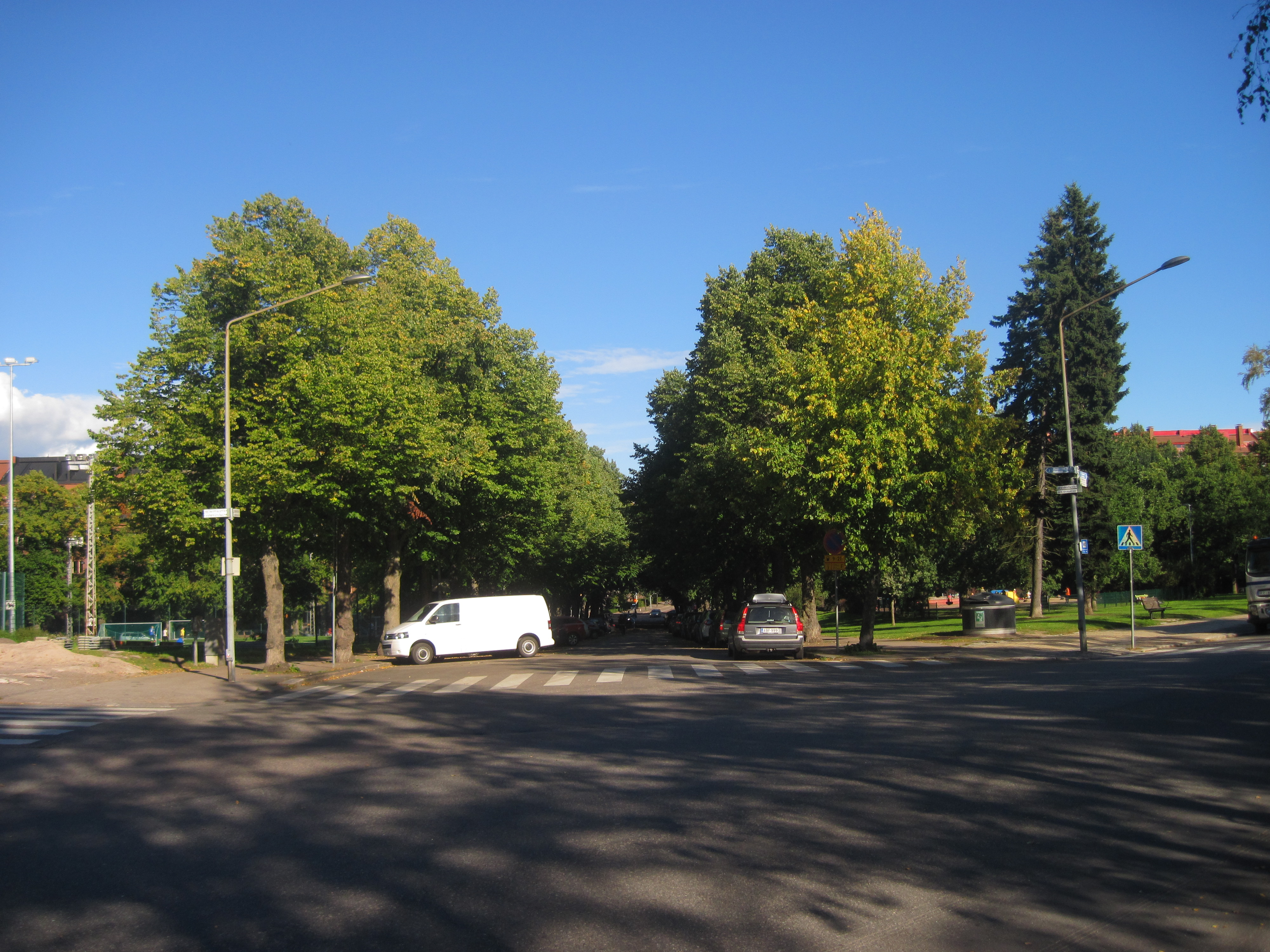 Arkadiankatu in Helsinki, seen from its Western end